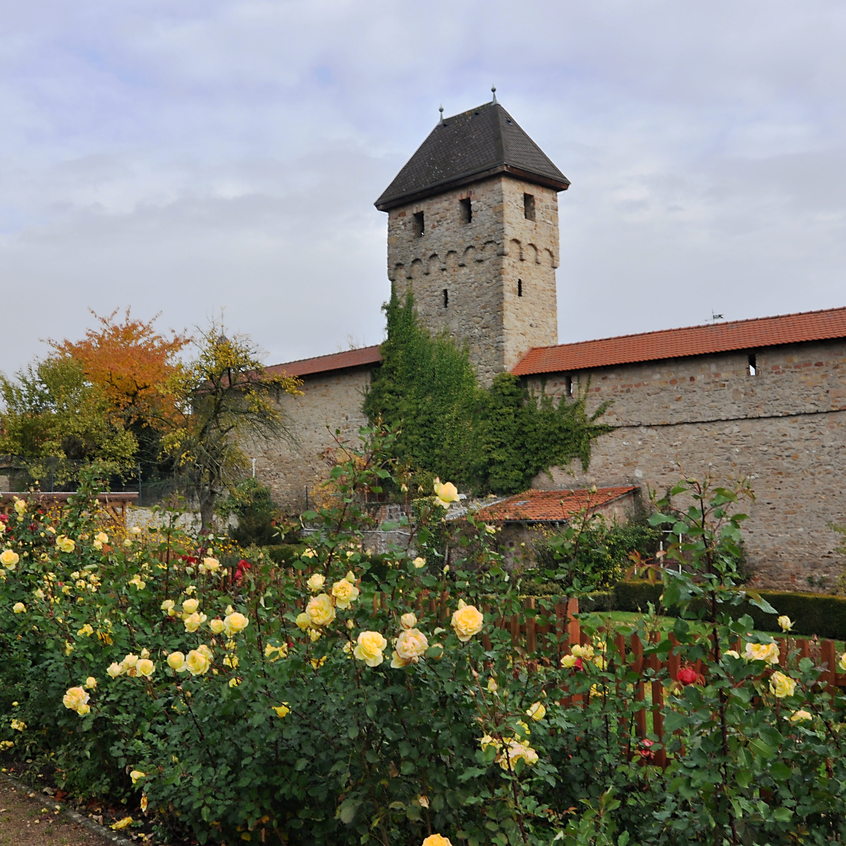 Kirchheimbolanden, town wall with Grey Tower